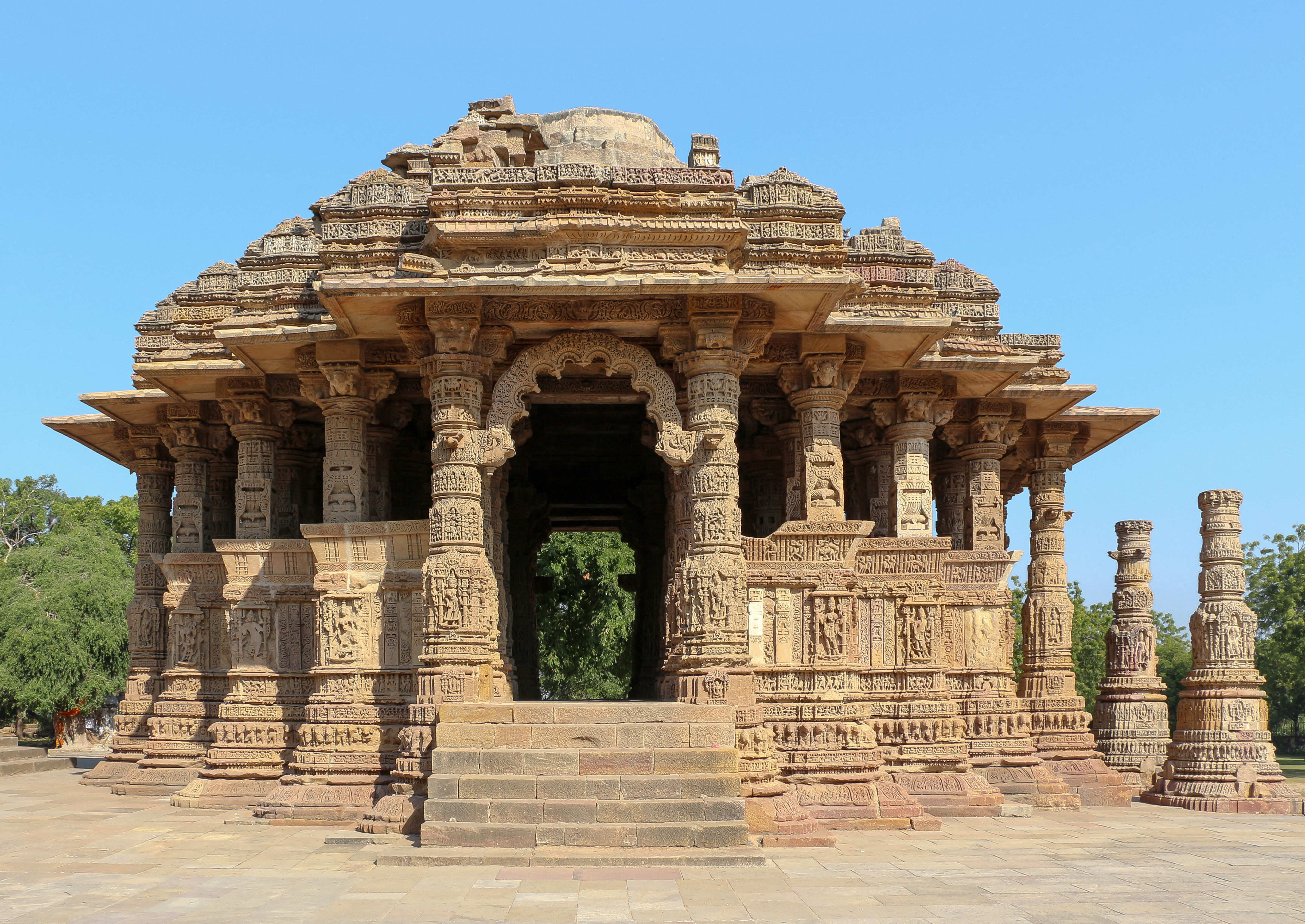 The Sabha Mandap of the Sun Temple, Modhera, India